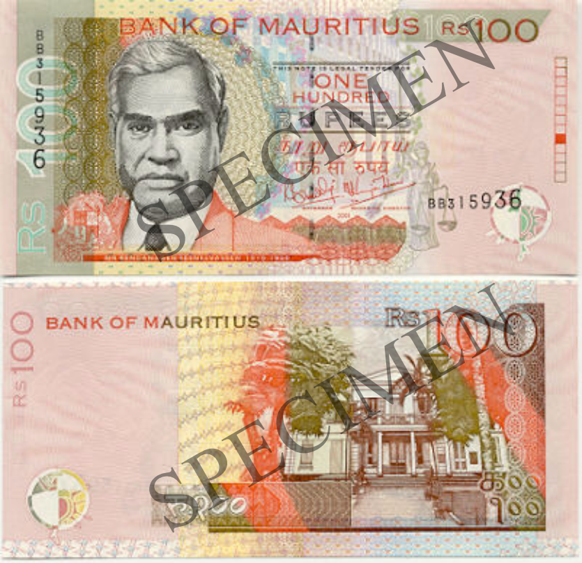 Mauritian rupees 100